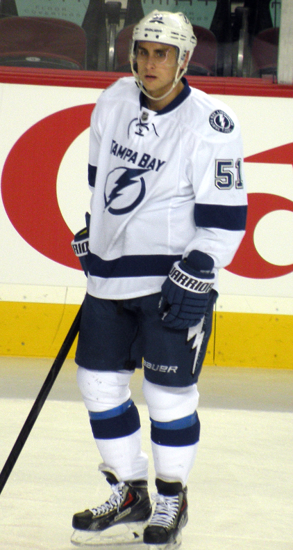 Tampa Bay Lightning forward Valtteri Filppula prior to a National Hockey League Game against Calgary